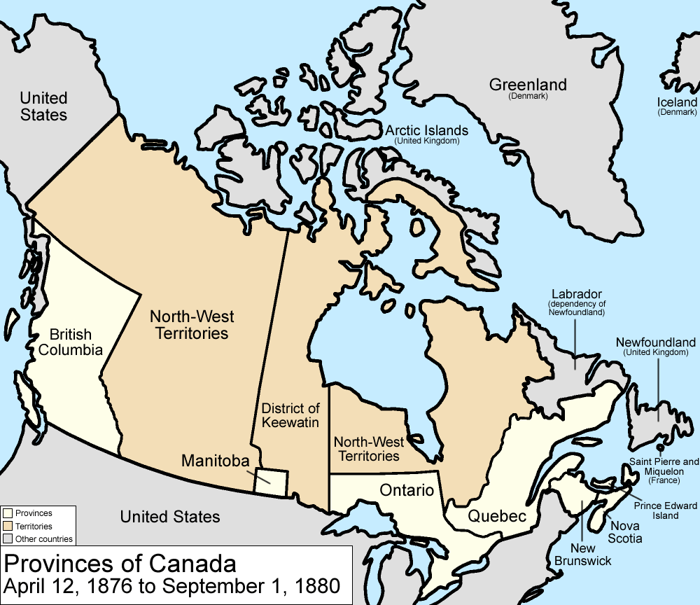 Map of the provinces and territories of Canada as they were from 1876 to 1880. On April 12 1876, the District of Keewatin was created from the North-West Territories. On September 1 1880, the British holdings of the Arctic islands were transferred to Canada, being added to the North-West Territories. Made by User:Golbez.